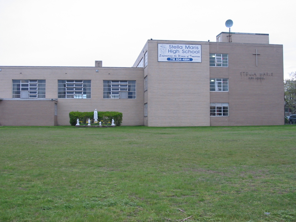 Stella Maris High School in June 2010